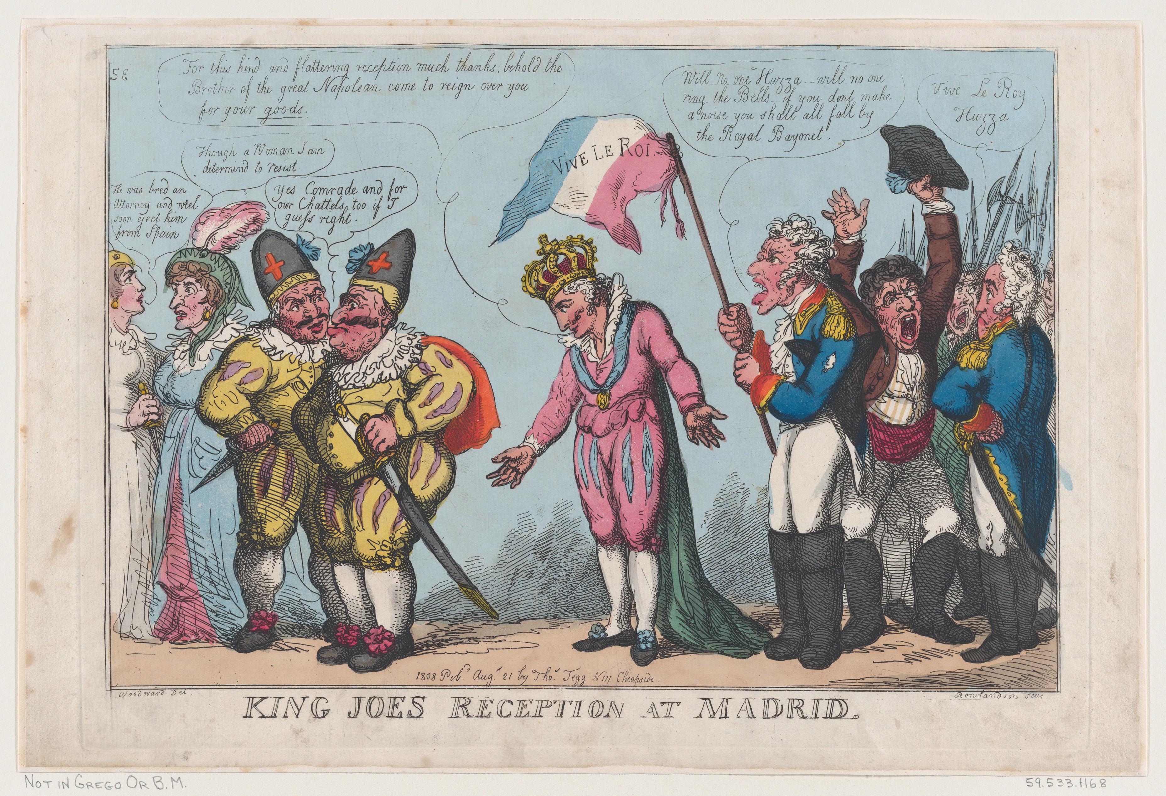 Print; Prints